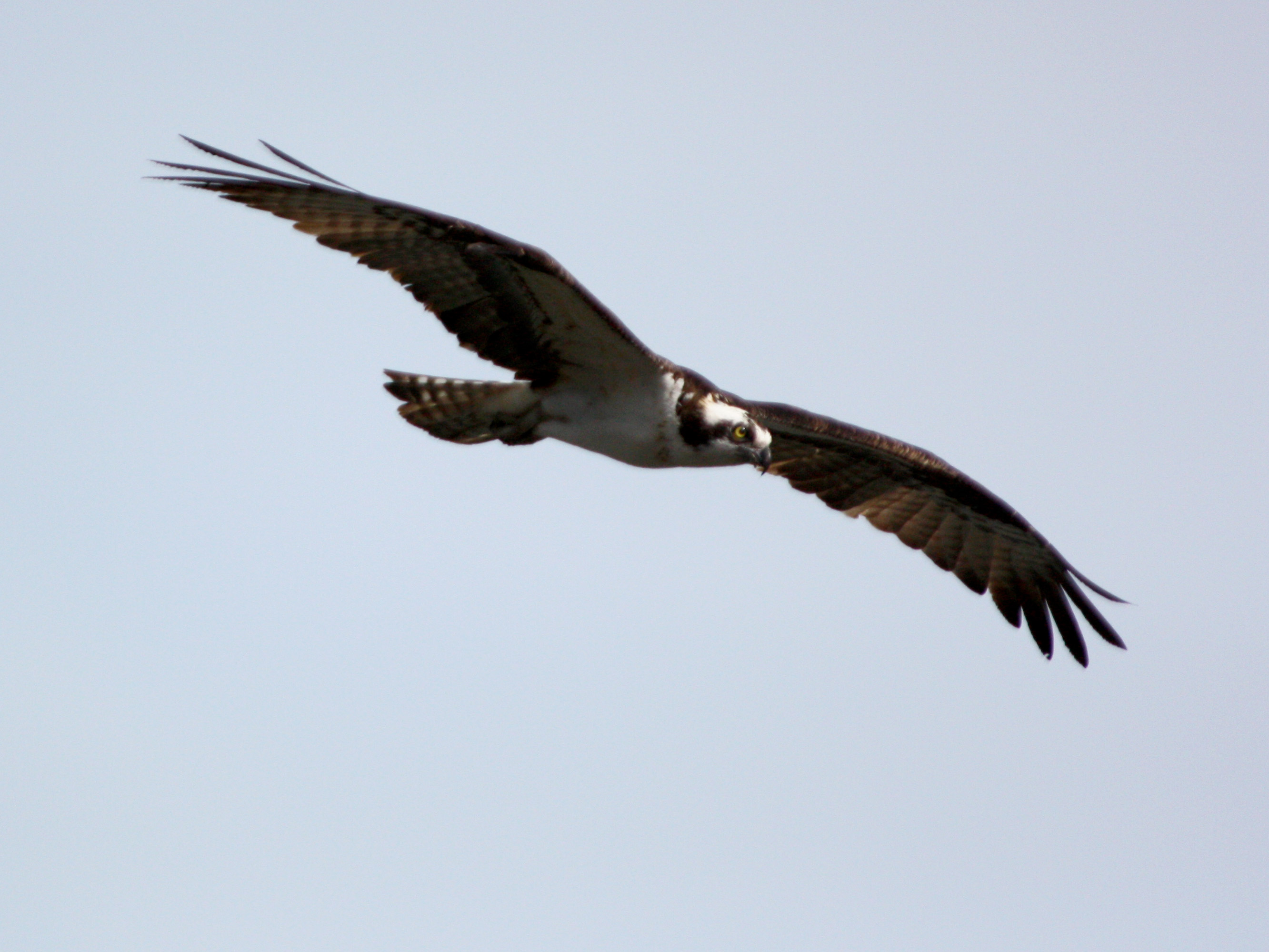 Osprey